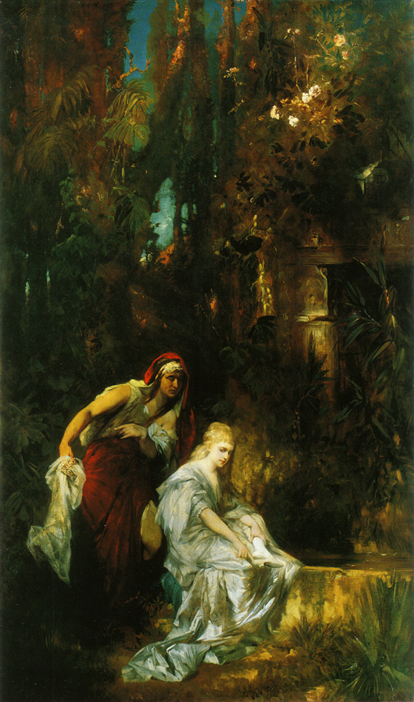 Hans Makart was a 19th century Austrian academic history painter, designer, and decorator